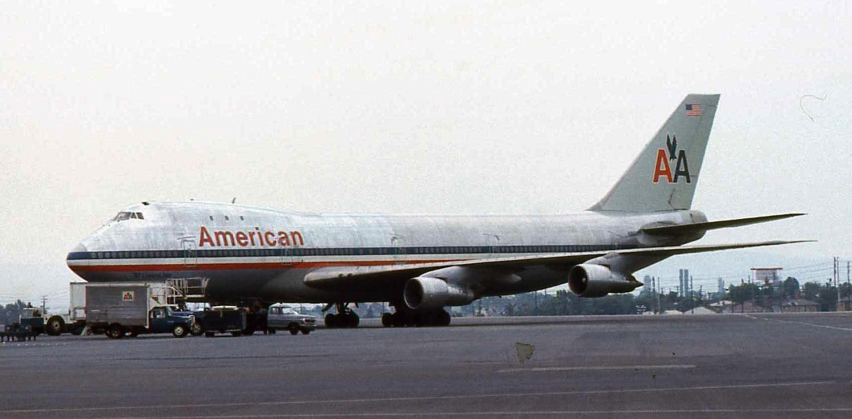 United States, Los Angeles International Airport. American Airlines Boeing 747 in 1974.